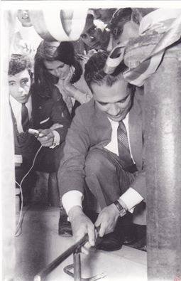 Governador Ney Braga inaugurando estação da Sanepar.